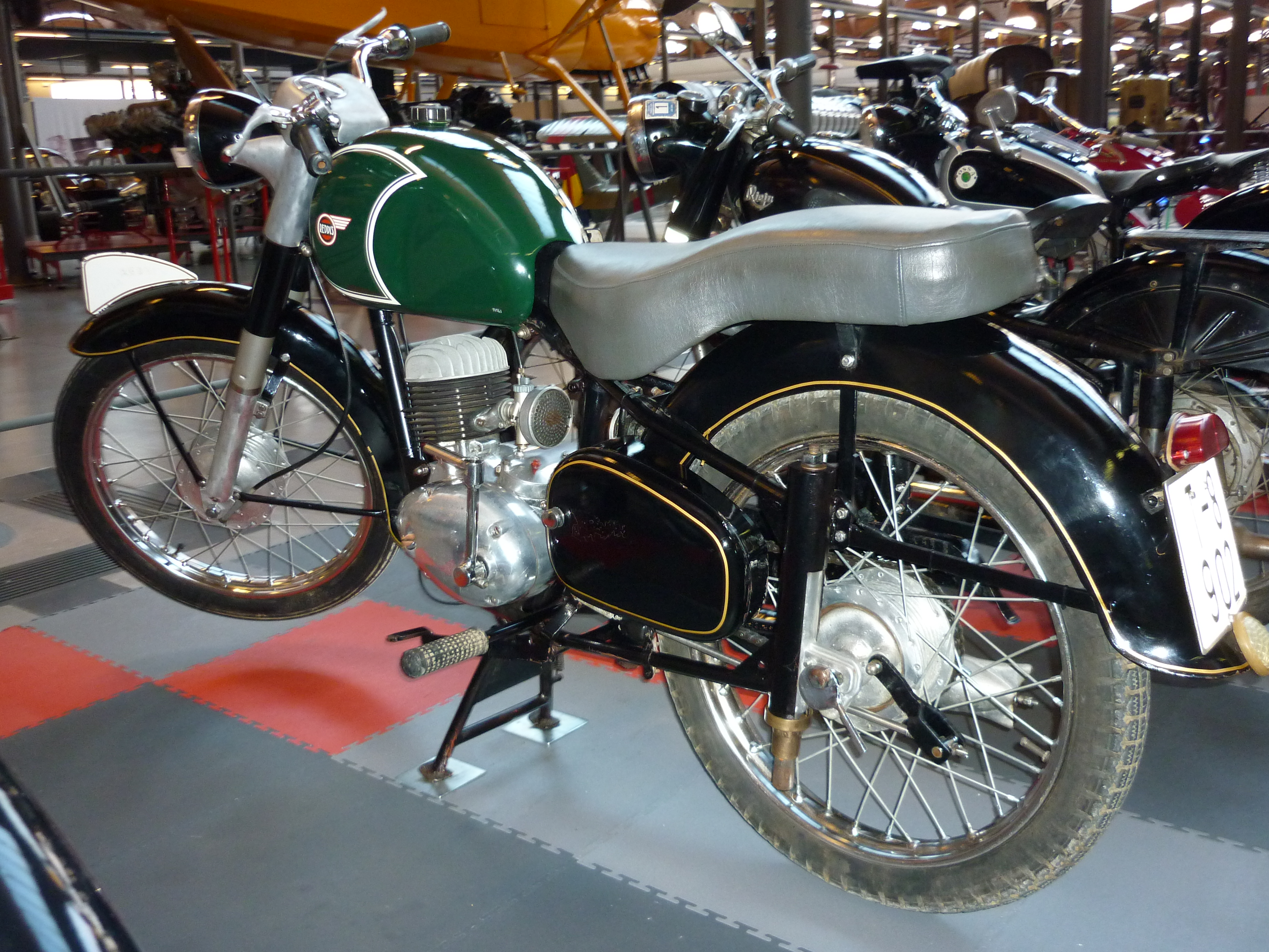 Reddis 125 (1958)